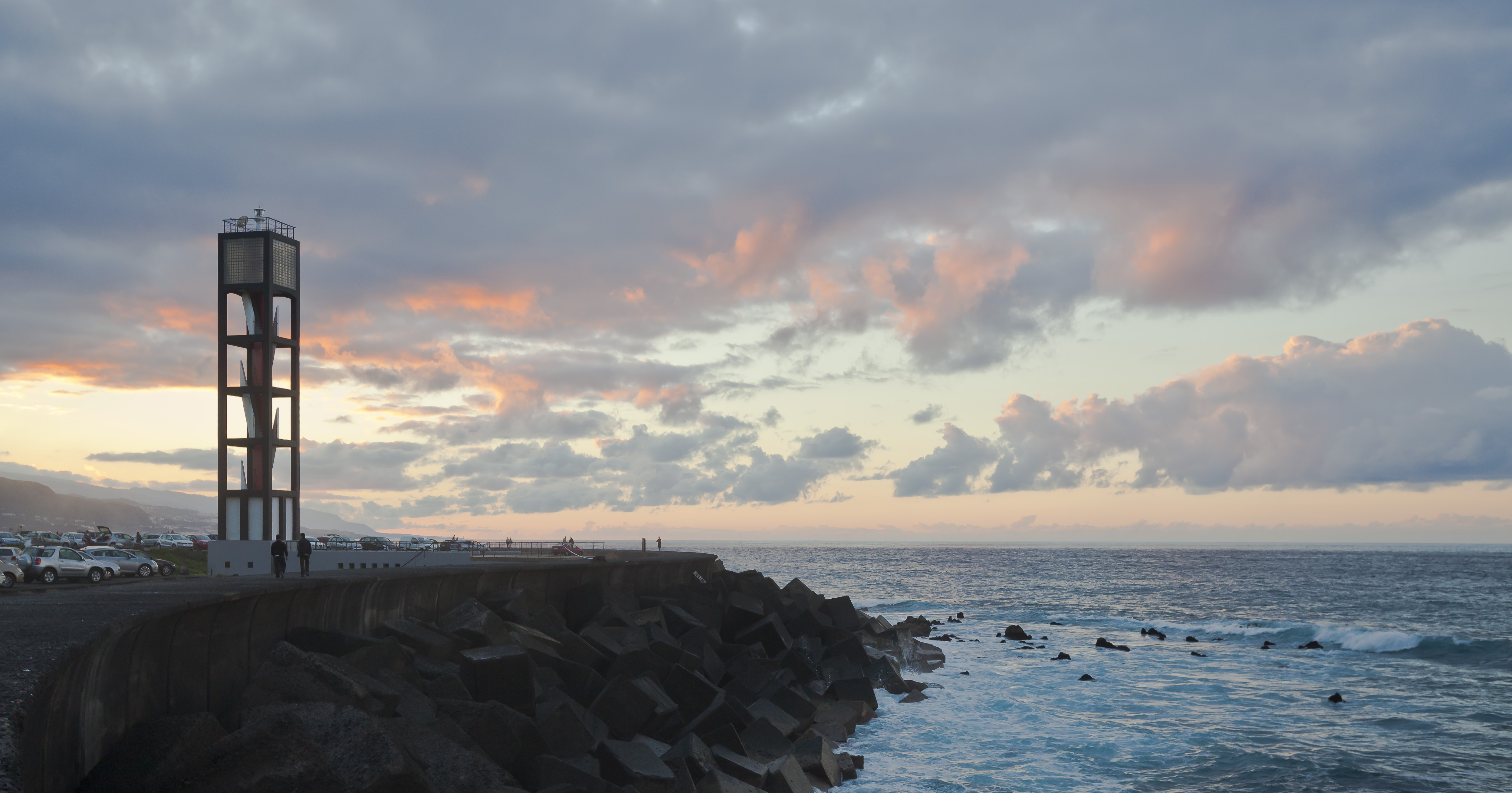 Lighthouse, Puerto de la Cruz, Tenerife, Spain